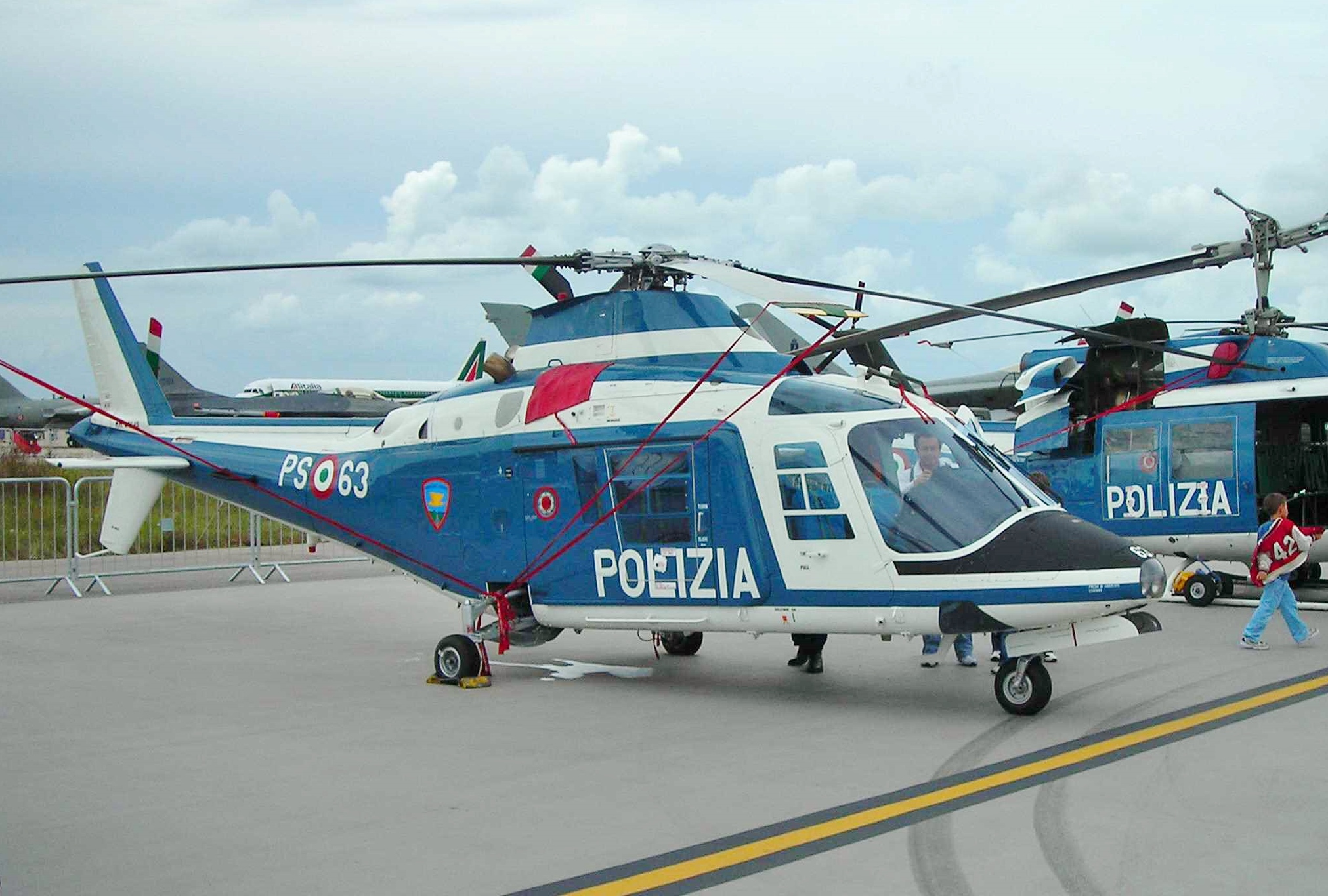 Agusta A109 of Italian Police. Picture taken during "Giornata Azzurra" 2006 (Italian Air Force airshow) at Pratica di Mare AFB, Italy.